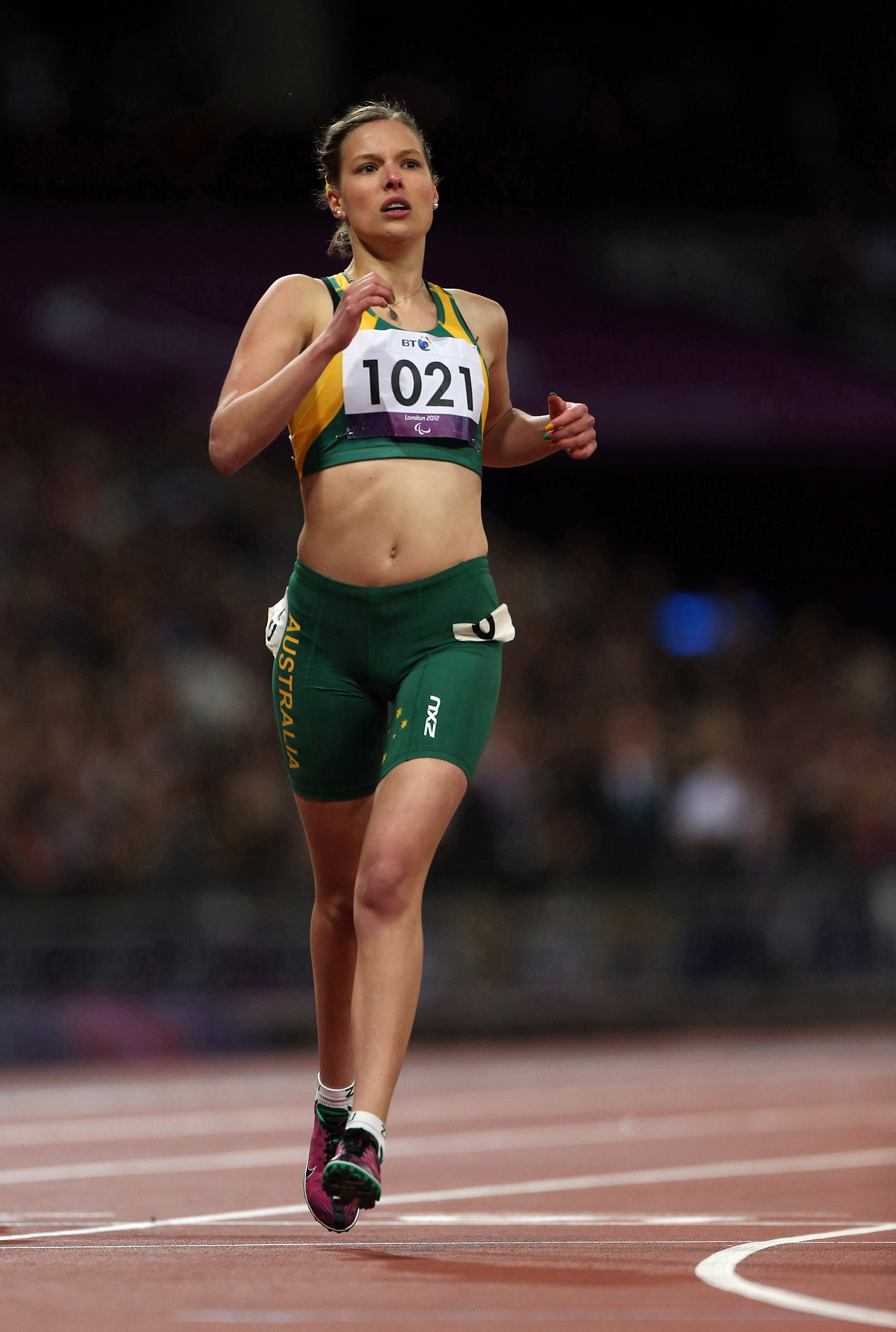 Photograph of Australian Paralympic team member Rachael Dodds at the 2012 Summer Paralympic Games in London